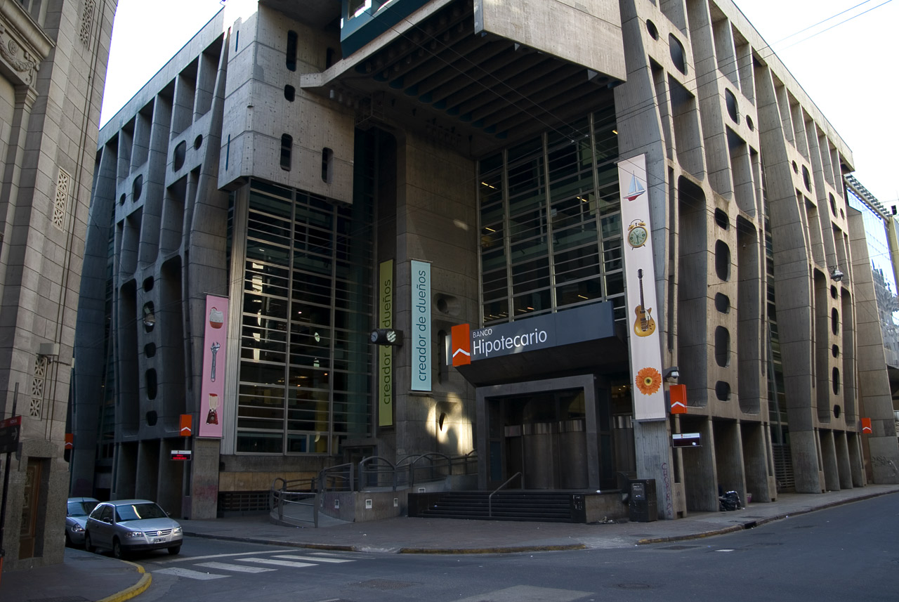 Clorindo Testa's brutalist Lloyds Bank (1966). The building is today the National Mortgage Bank.